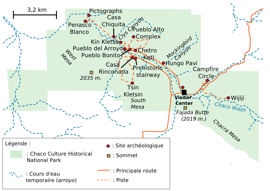 Map of Chaco Culture National Historic Park, New Mexico, USA